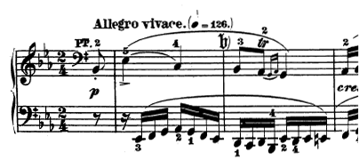 Incipit of the 4th movement from the Piano Sonata No. 13 (Beethoven) Op. 27, No. 1. in E-flat major (Quasi una fantasia).